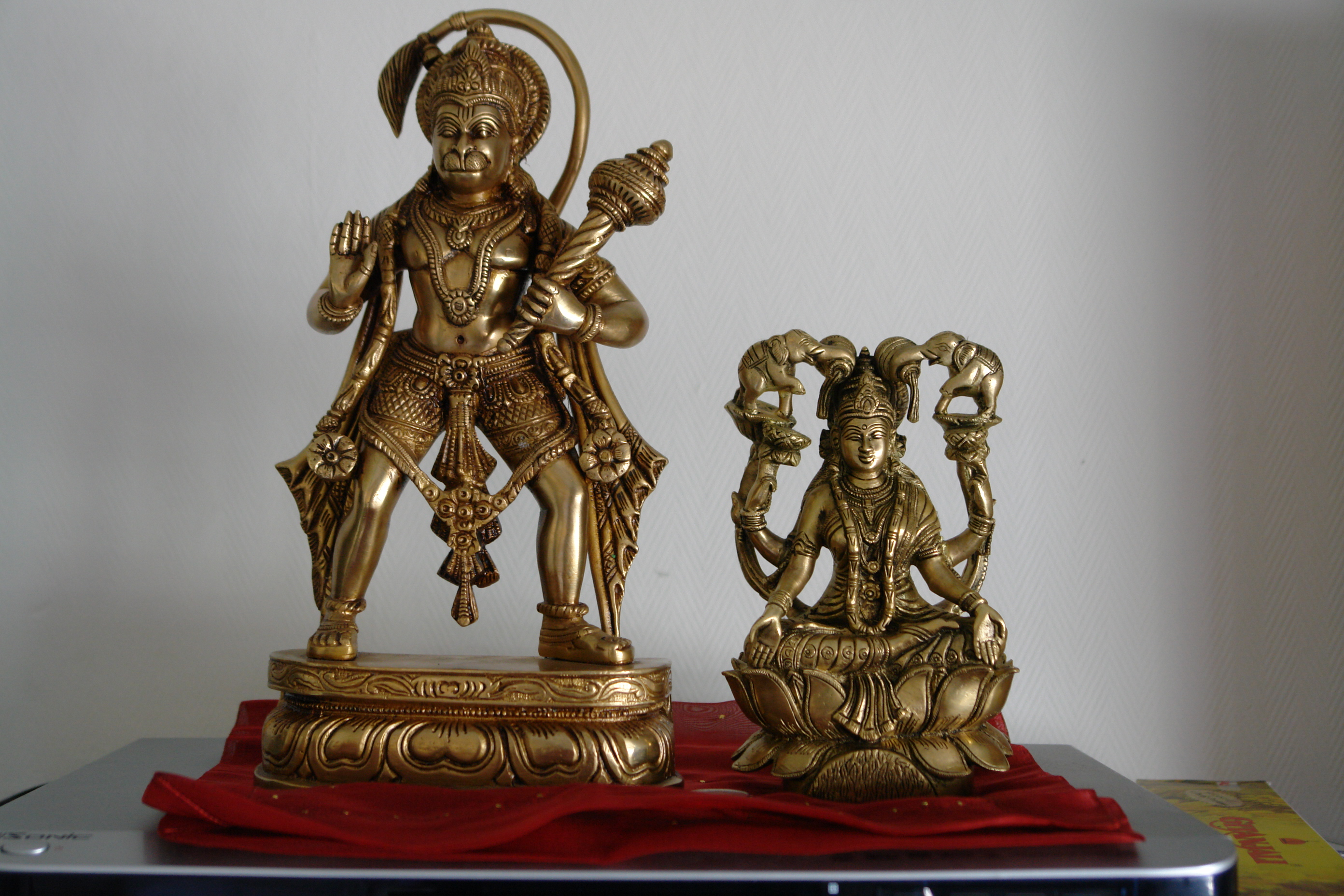 Two Hindu idols: Hanuman, the monkey god, to the left, and Sri or Lakshmi, goddess of prosperity, to the right.